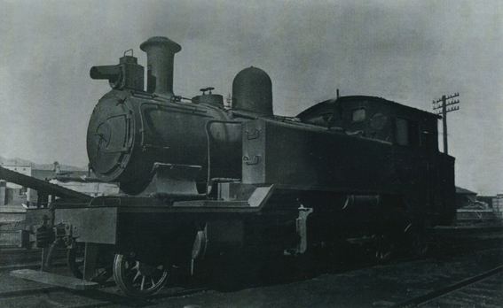 Steam locomotive of the Peking-Mukden Railway (later China Railways class PL12)